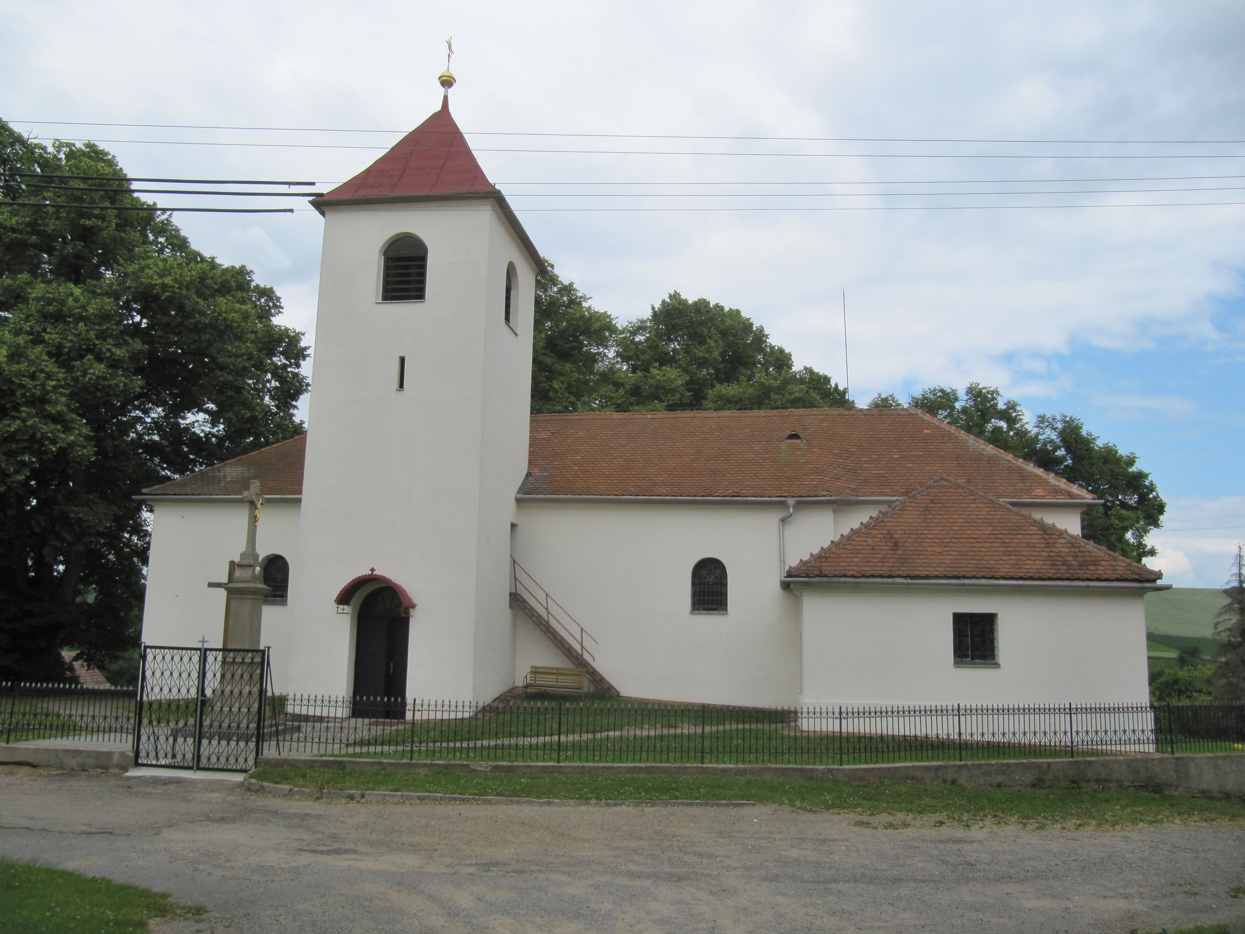 Dobročkovice, Vyškov District, Czech Republic.